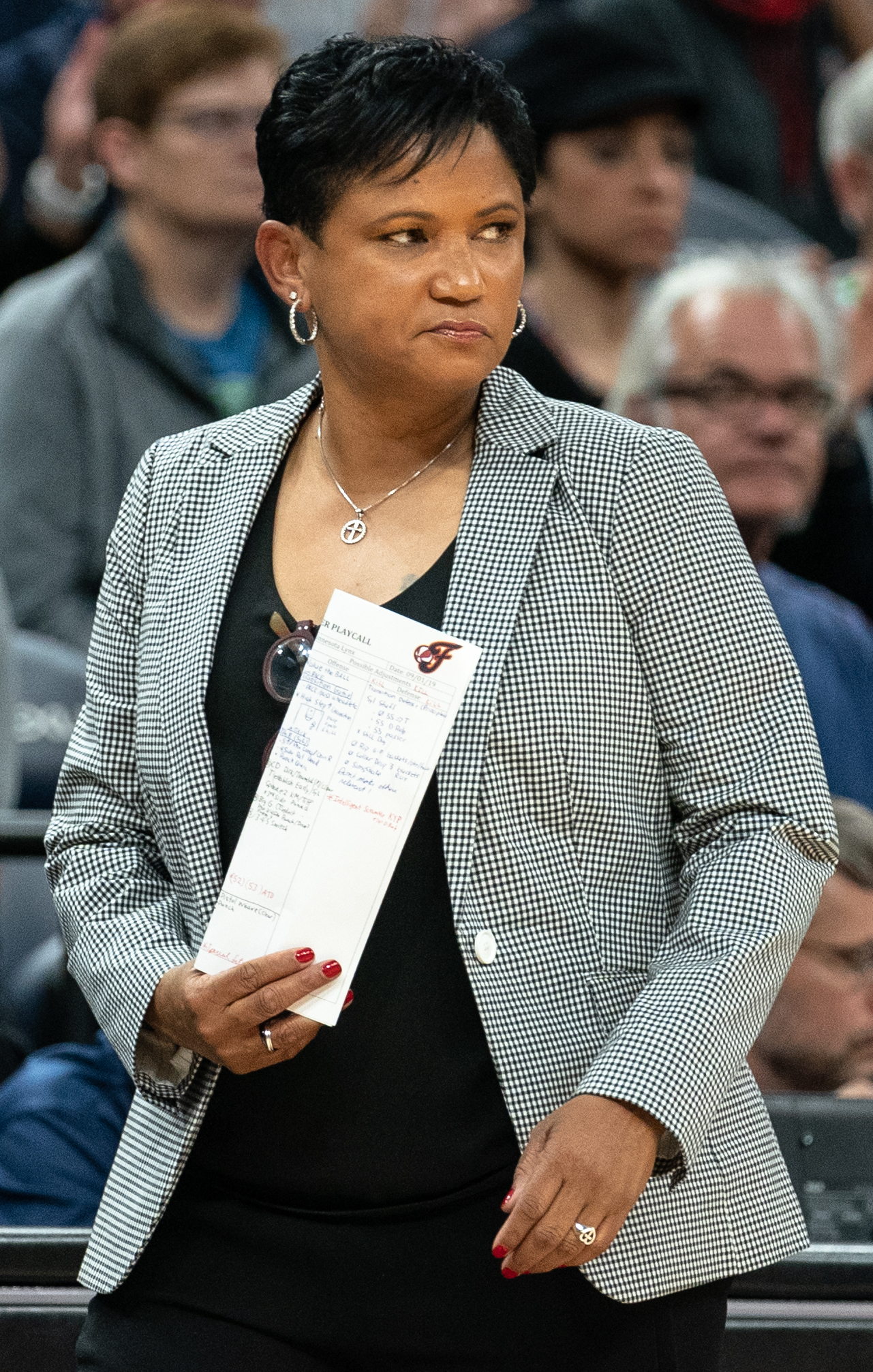 Indiana Fever coach Pokey Chatman during a game against the Minnesota Lynx